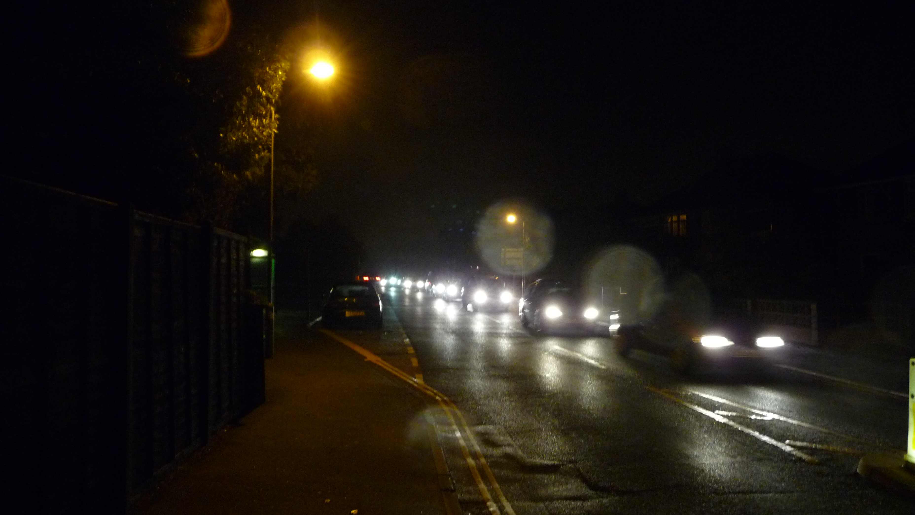 Park Road, Cowes, Isle of Wight, on the Friday of Cowes Week 2010. The firework display had finished, and so the usual crawl of cars out of Cowes had begun. Traffic is slow moving, but does steadily progress, especially as traffic management systems have been put in place in recent years. This photo is taken at the Round House, and the cars are about to turn from Park Road into Place Road. One of the pieces of traffic managements was that access to Gurnard at the Round House was blocked off, so cars had to go onto Place Road. The Cowes-bound bus stop, named "Round House" is on the left.